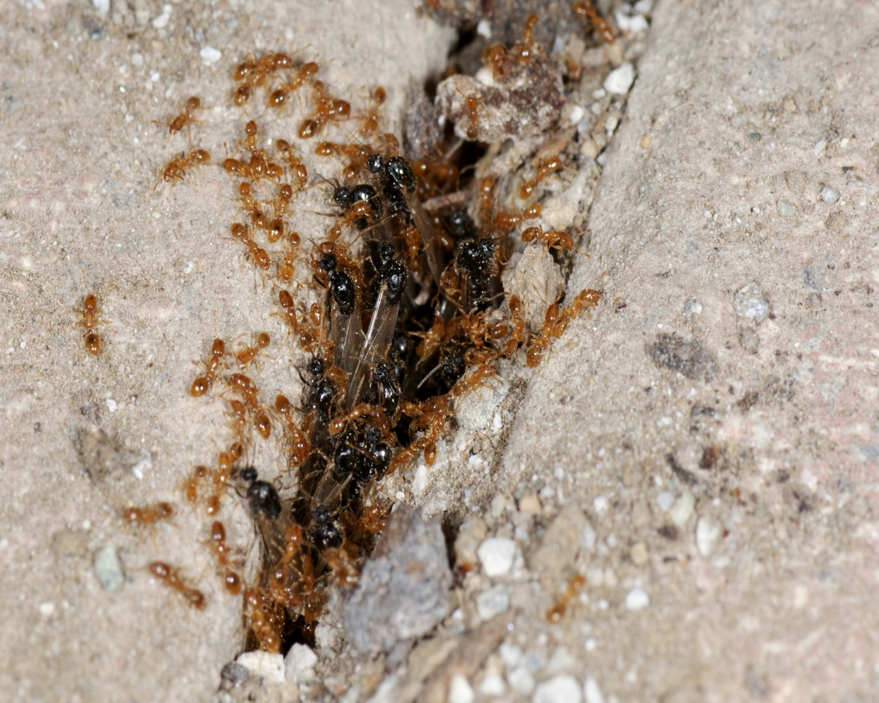 male alates of Solenopsis fugax swarming, at nest entrance